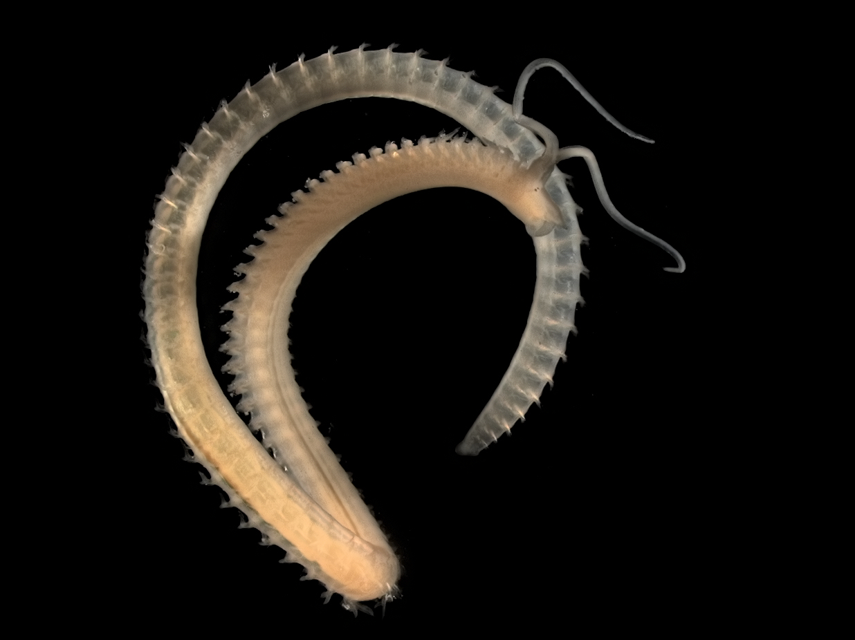 from the Belgian continental shelf.